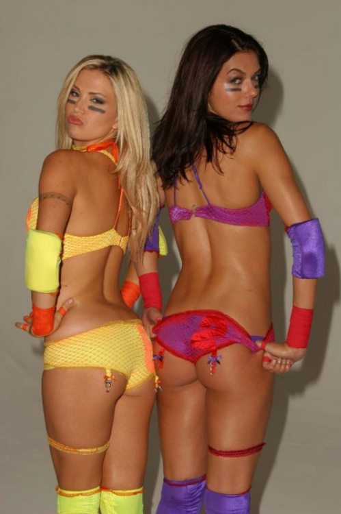 lingerie-football-league-38